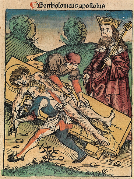 This is a part of a scan of an historical document: Title: Schedelsche Weltchronik or Nuremberg Chronicle